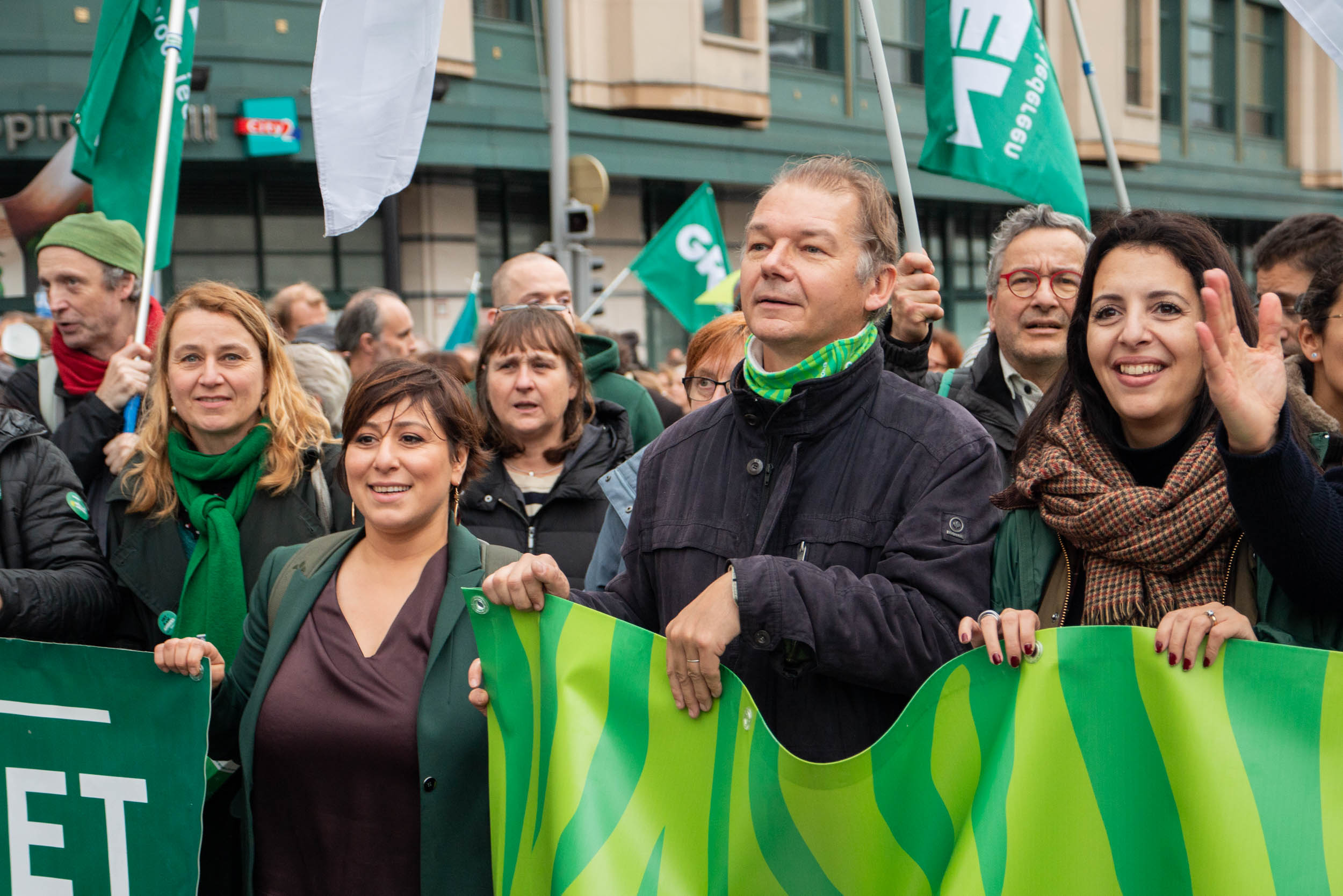 Meyrem Almaci, Philippe Lamberts and Zakia Khattabi at the "Claim the Climate" march (Brussels, December 2018)